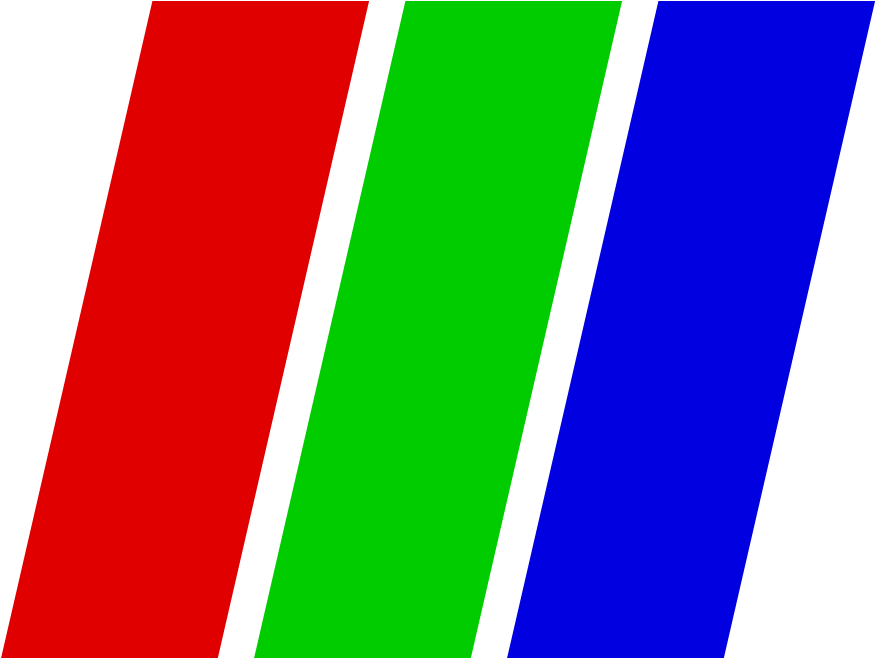 Megavision's brand of 1991